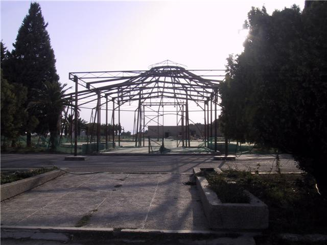 Persepolis tentcity, 2007